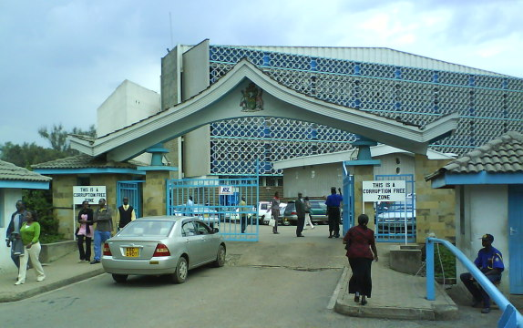 University of Nairobi